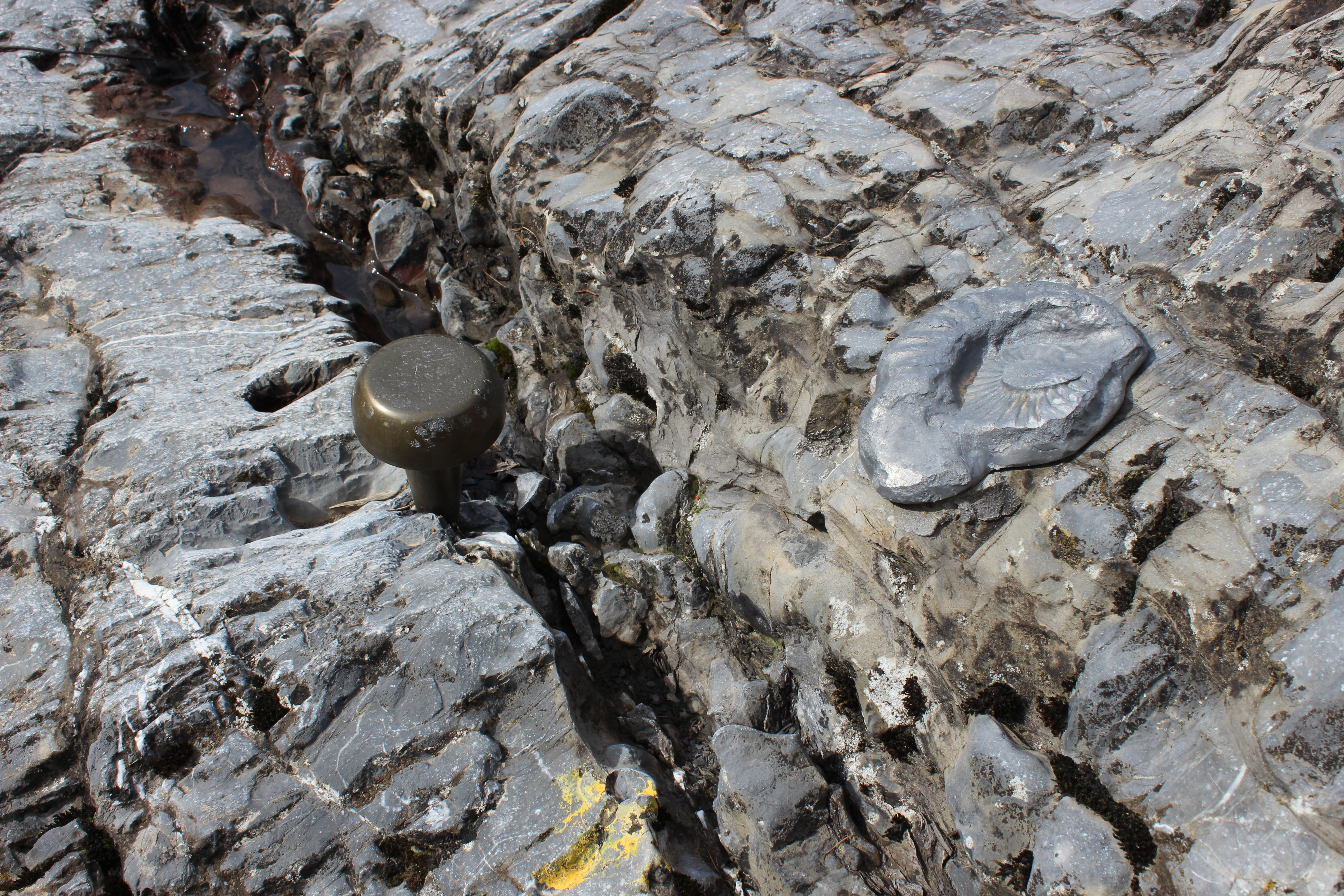 The “golden spike” at the Global boundary Stratotype Section and Point (GSSP) of the Ladinian stage (upper Middle Triassic), Bagolino section, Italian Alps. The boundary is at the base of the limestone bed which overlies the conspicius groove. The beds in the left one third of the image belong to the Ladinian stage, the beds in the right two thirds belong to the Anisian stage (lower Middle Triassic).